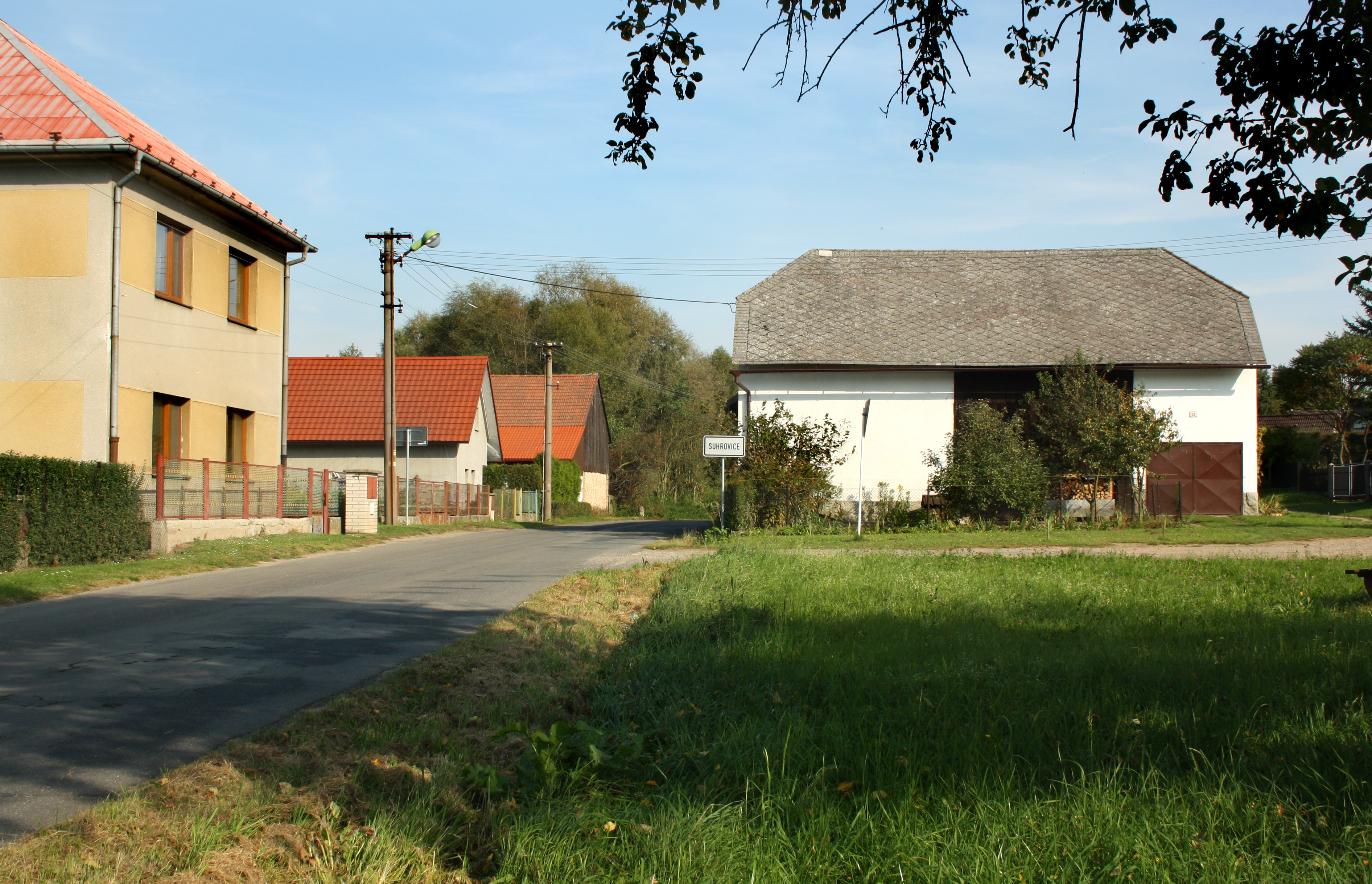 West part of Skuhrovice, part of Kněžmost, Czech Republic